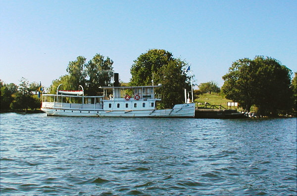 s/s Ejdern at the Adelsö jetty